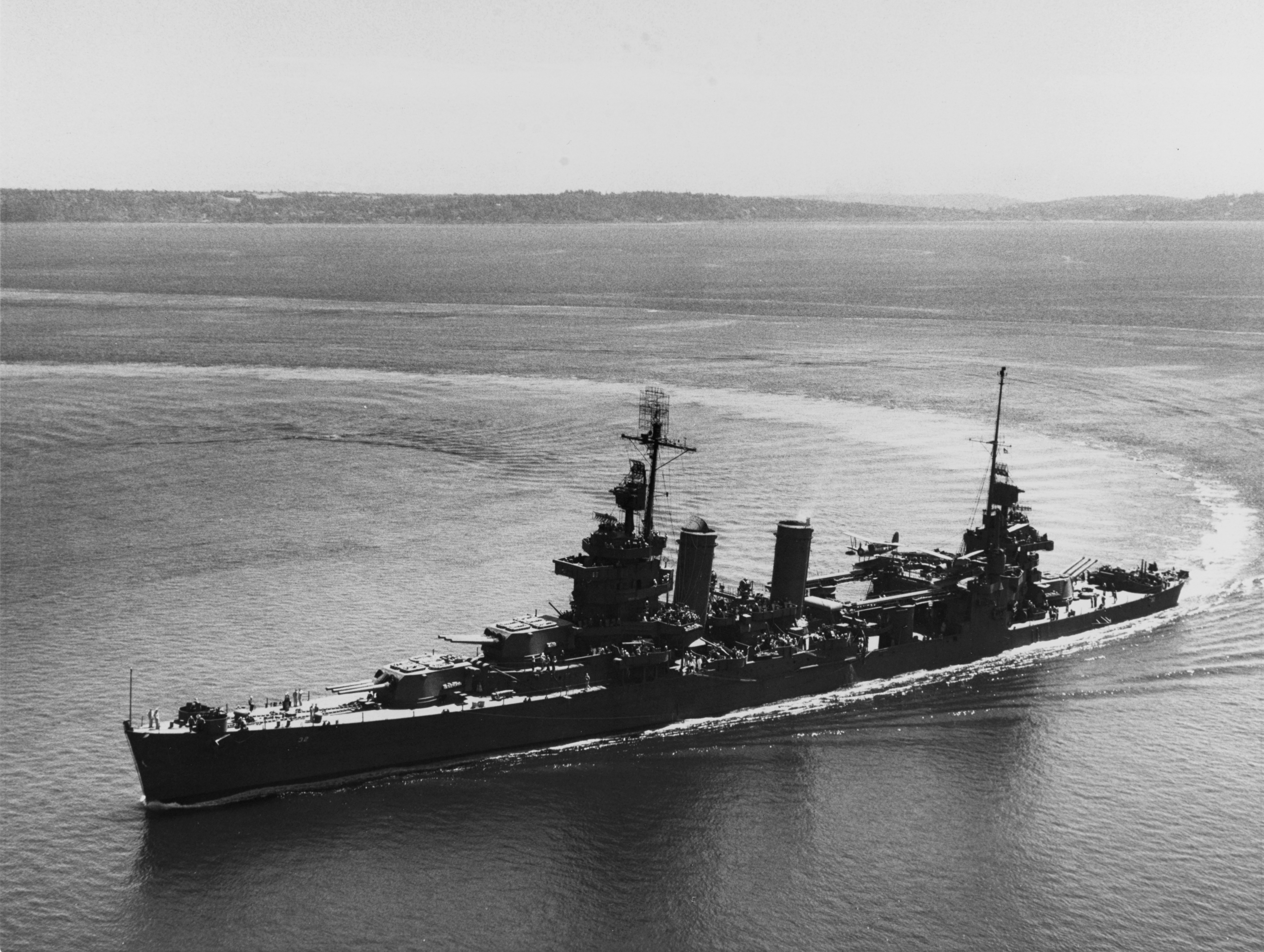 The U.S. Navy heavy cruiser USS New Orleans (CA-32) steams through a tight turn in Elliot Bay, Washington (USA), on 30 July 1943, following battle damage repairs and overhaul at the Puget Sound Naval Shipyard.